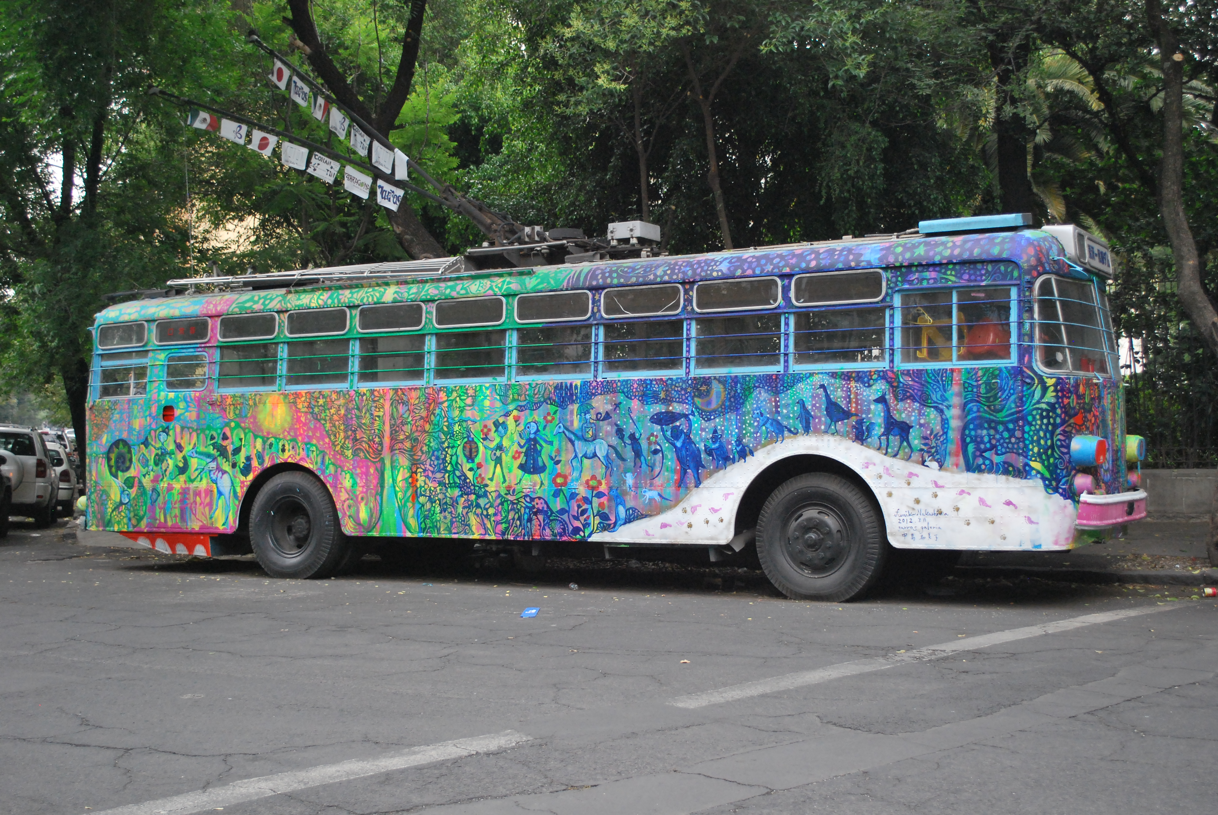 Trolleybus in Colonia Hipodromo, on Avenida Veracruz across from Parque España, painted by Fumiko Nakashima